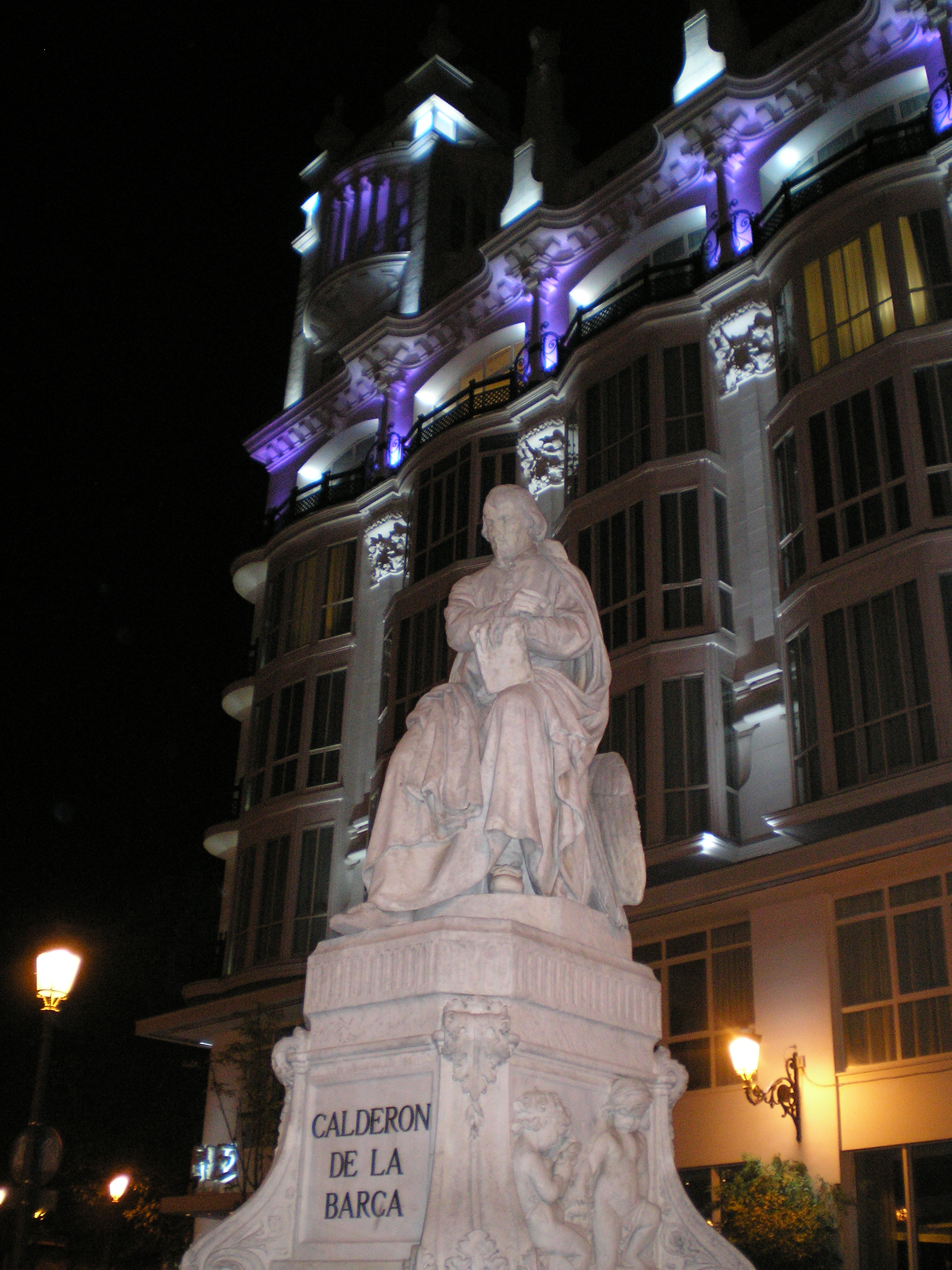 Monument to Pedro Calderón de la Barca, Saint Ana Square, Madrid